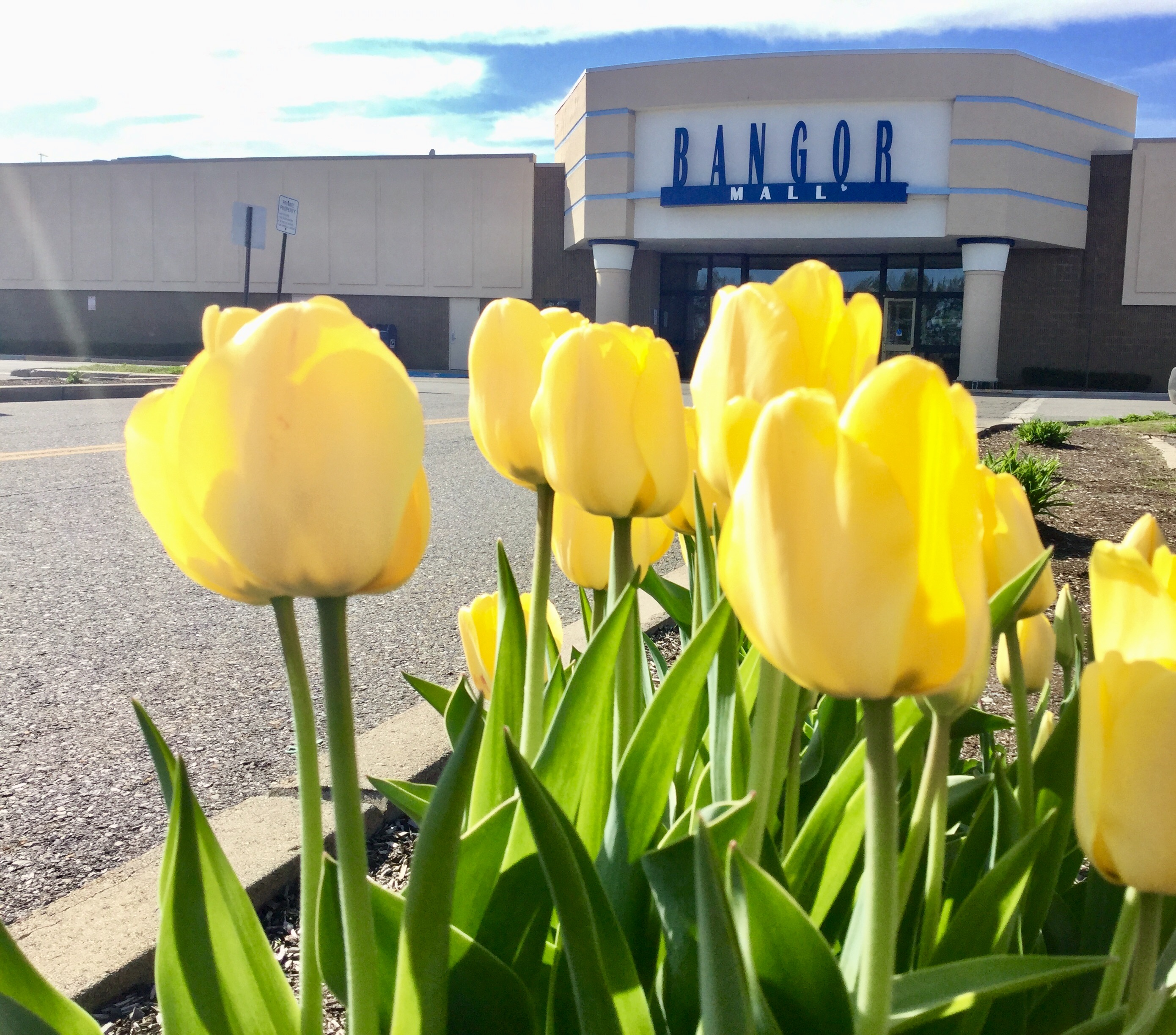 One of the exterior entrances at Bangor Mall in spring 2018